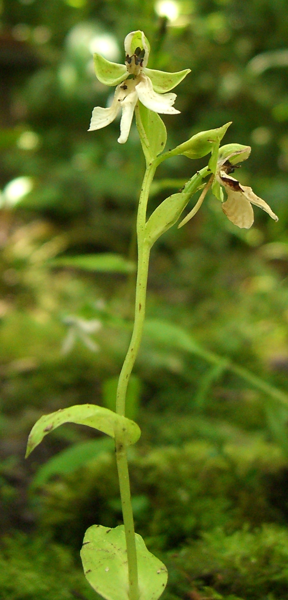 Please report references to .